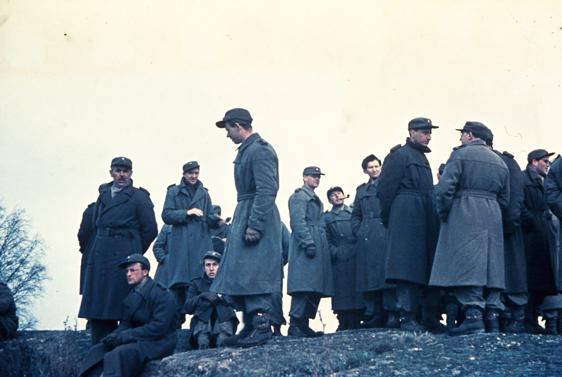 Date: April 1945 Fotograf: Ebbe Clemmensen More pictures from the occupation: Download and rights: More about The Museum of Danish Resistance (Frihedsmuseet)